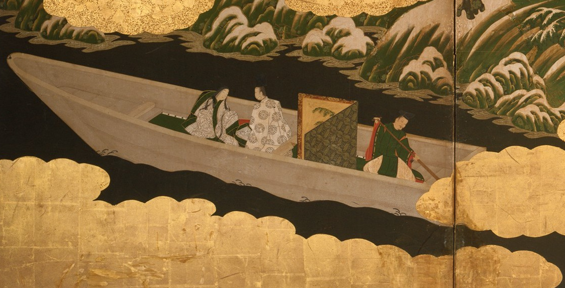 Crop of File:源氏物語図屏風「御幸」・「浮船」・「関谷」-Scenes from The Tale of Genji- “The Royal Outing,” “Ukifune,” and “The Gatehouse” MET DT1671.jpg to just the "A Boat Cast Adrift" / "Ukifune" scene. Prince Niou, Genji's grandson, abducts the young Princess Ukifune in heavy snowfall.